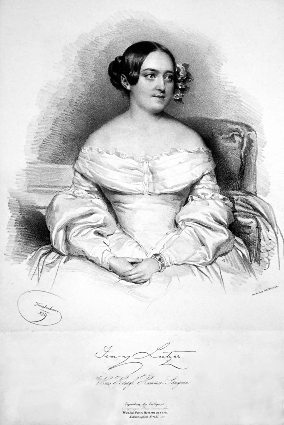 Lithography of Jenny Lutzer, wife of Franz von Dingelstedt